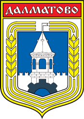 Dalmatovo (Kurgan oblast), coat of arms (1980)